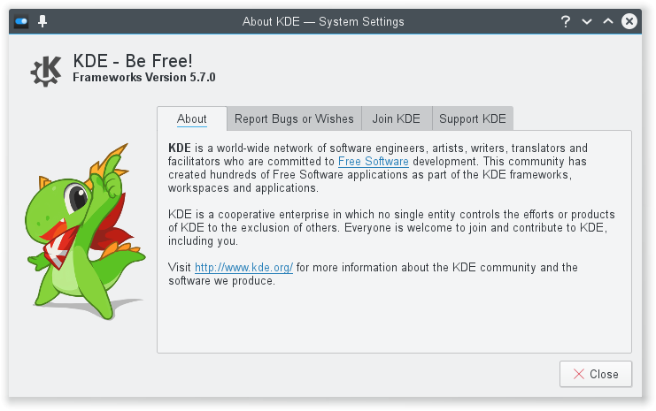 The "About KDE" screen from a Frameworks 5.7 application.